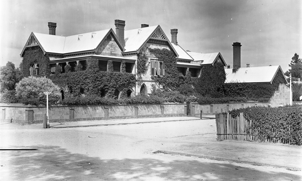 C. A. Hrnabrook's Ivy-covered two-storey mansion on East Terrace, Adelaide